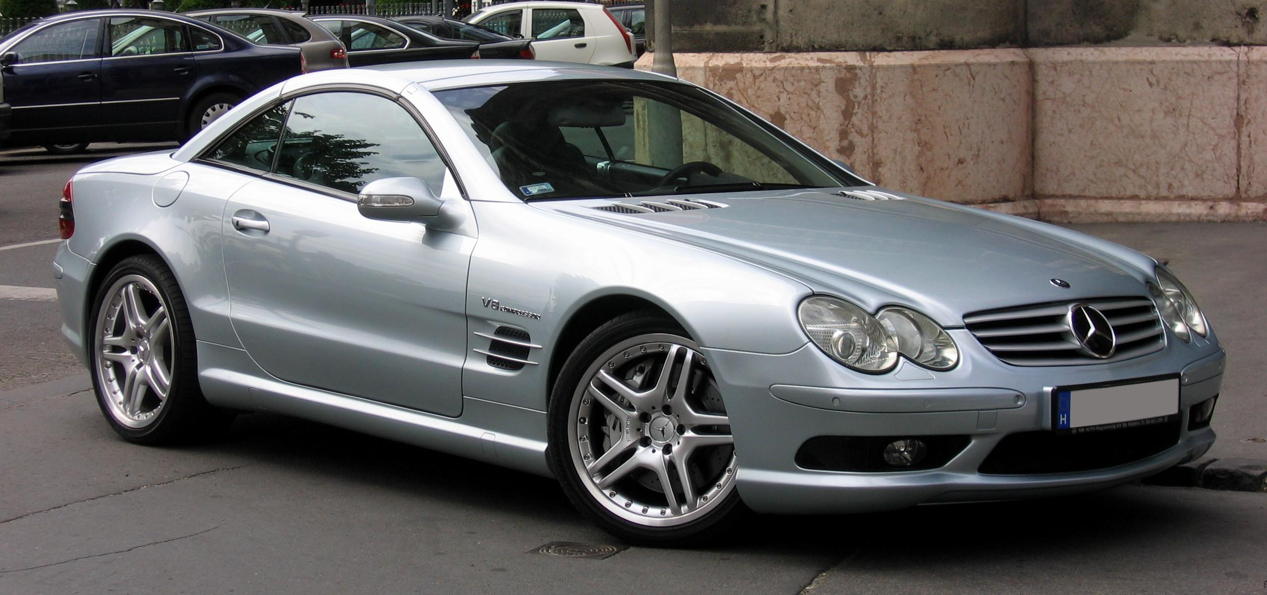 Mercedes SL 55 AMG in Budapest